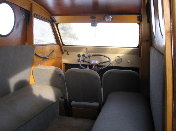 The interior view of a 12 passenger Bombardier B-12 Snowmobile, this is a 1951 wood bodied model.